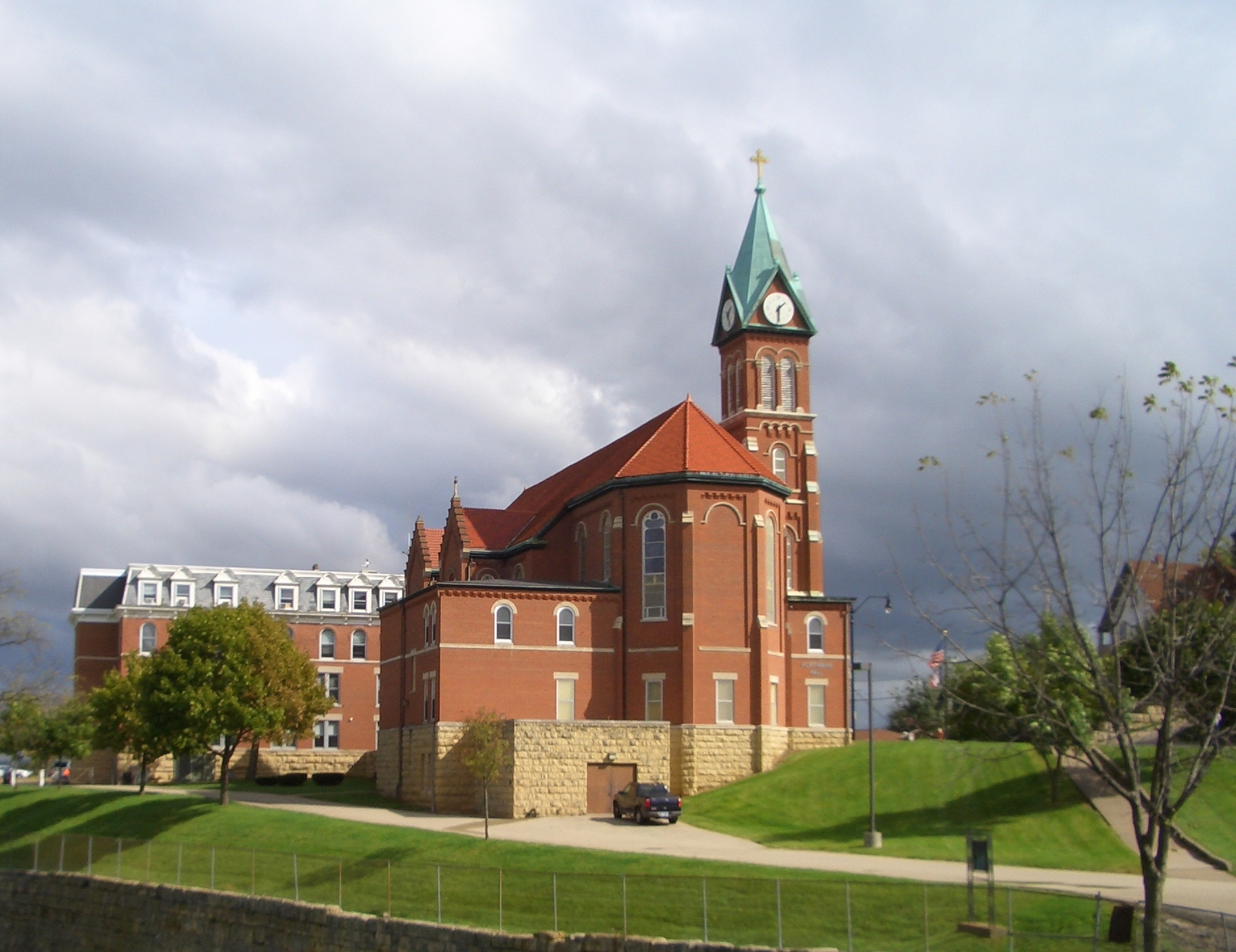 Loras College: Hoffman Hall, as seen from Cox Street